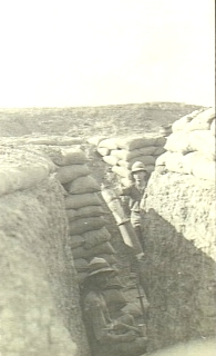 A British Army trench with a trench mortar and two man crew. Location : Mesopotamia. Comment : This is a 6 inch Newton Mortar.